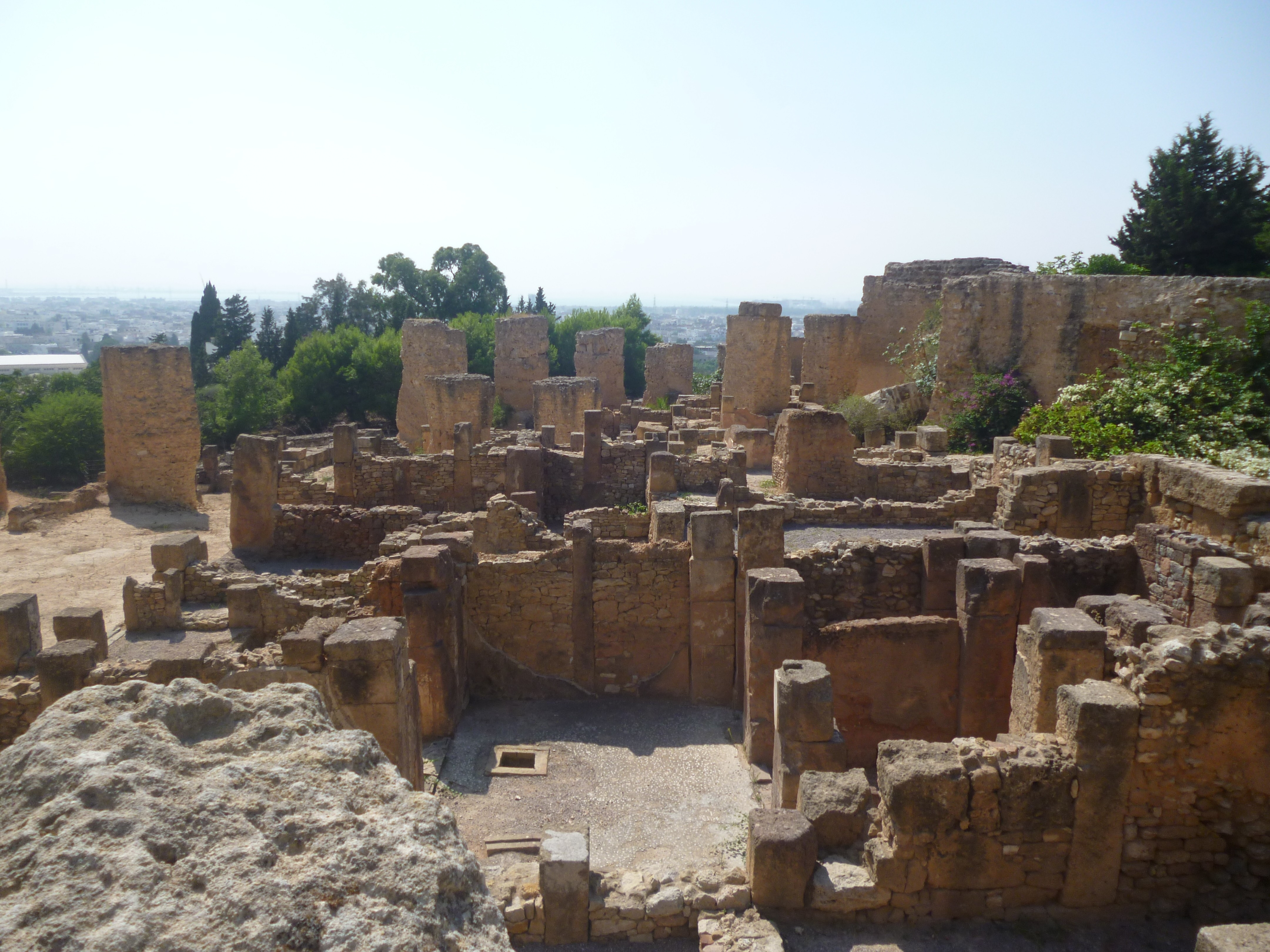 Archaeological Site of Carthage (Tunisia)